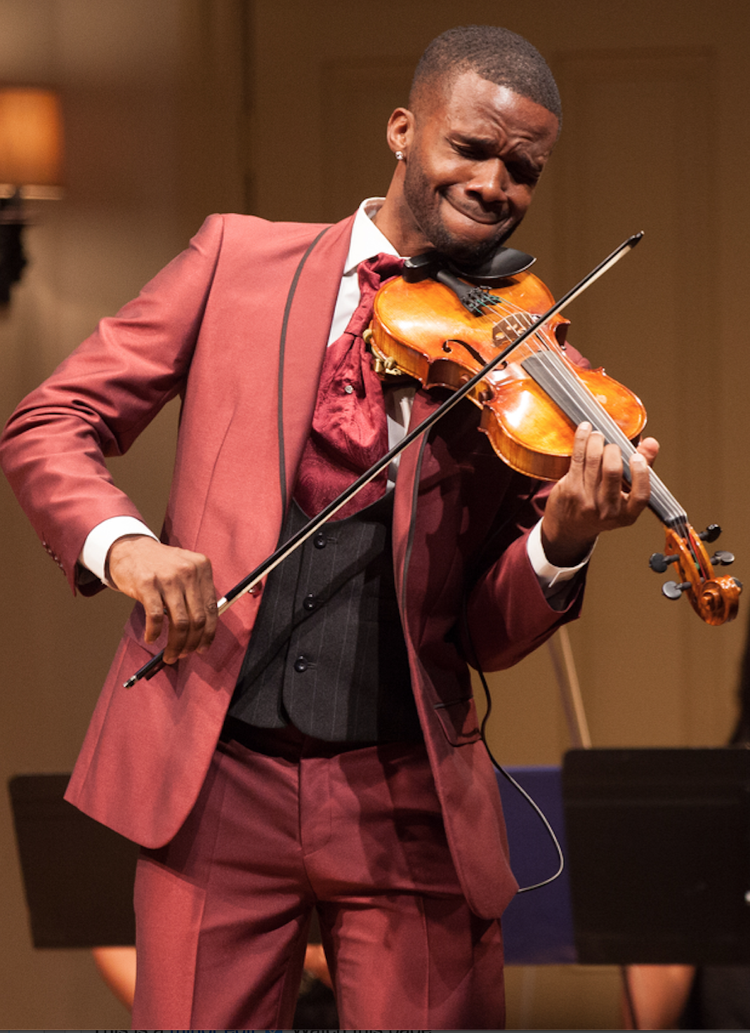 England playing violin at the Geffen Theatre